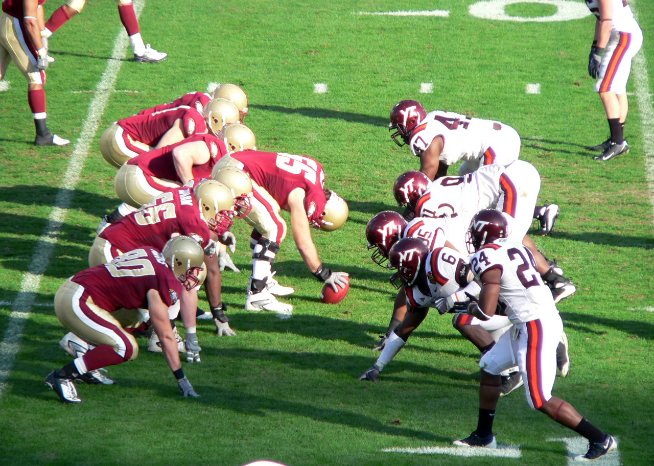 Boston College prepares to run a play on offense during the second half of the 2008 ACC Championship Game.